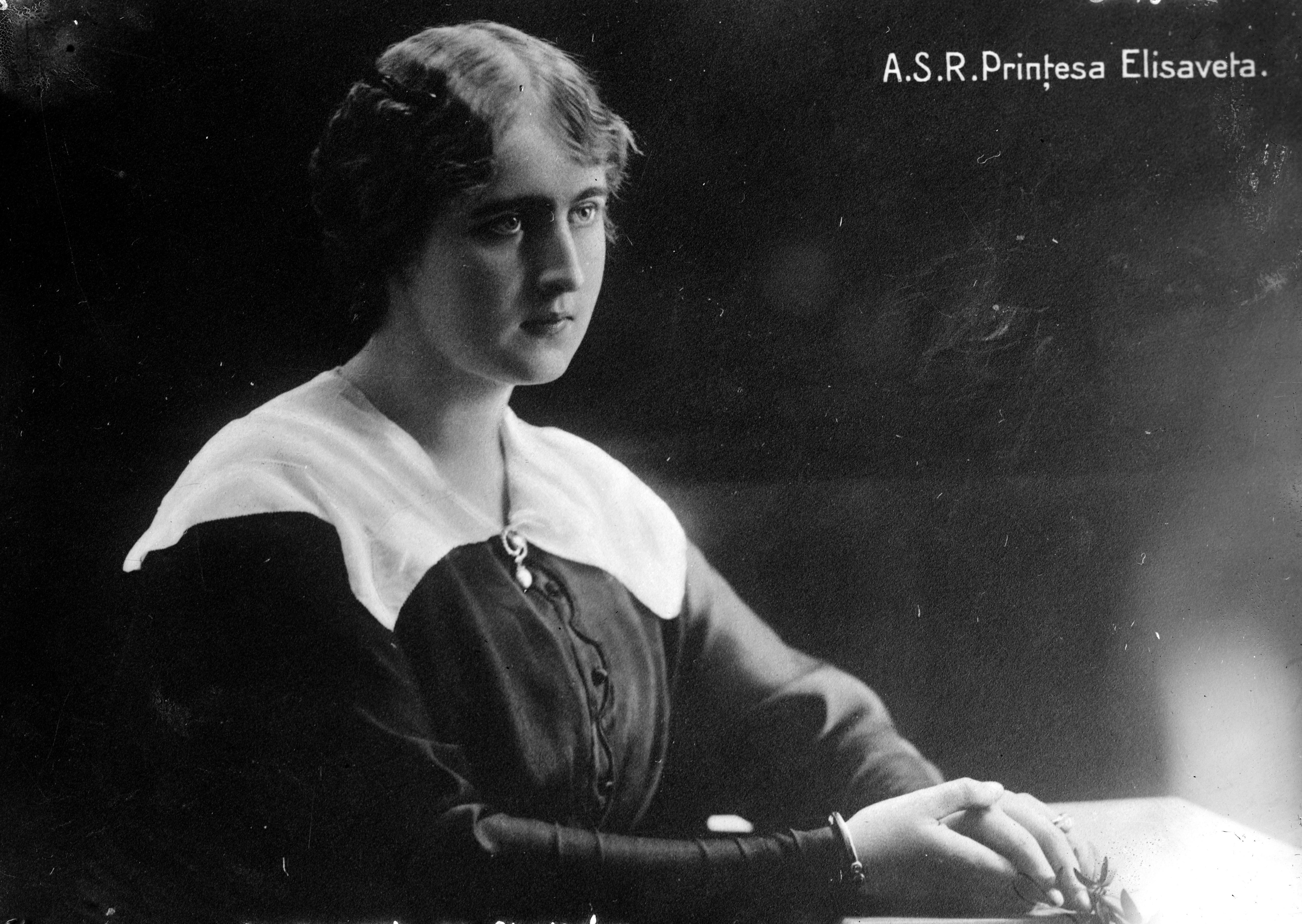 Princess Elisabeth of Romania